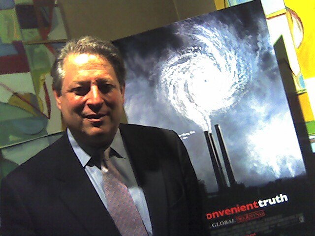 I was invited to a premiere of Al Gore's movie on global warming, An Inconvenient Truth. See the trailer and , where you can also pledge to take your friends/lovers/children to the opening weekend.